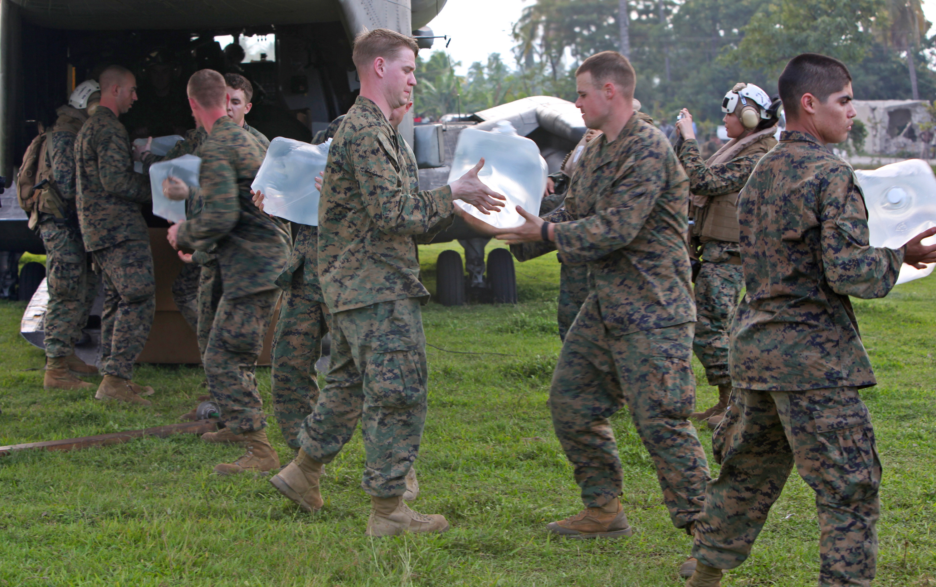 U.S. Marines with the 3rd Battalion, 2nd Marine Regiment, 22nd Marine Expeditionary Unit's battalion landing team unload water from the back of a CH-53E Super Stallion helicopter for earthquake victims in Leogane, Haiti, on Jan. 20, 2010. The 22nd Marine Expeditionary Unit is comprised of aviation combat element Marine Heavy Helicopter Squadron 461.